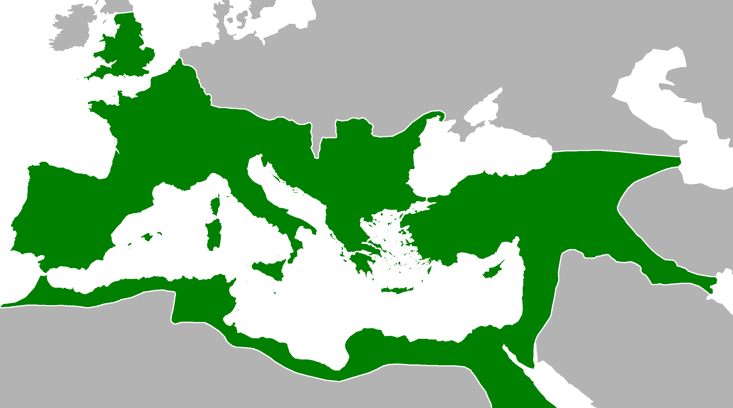 The Roman Empire in 117 AD.